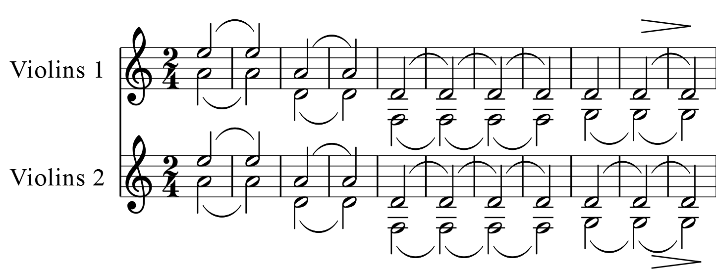 Joseph Haydn, Symphony No. 60, last movement, bar 19-29, violins